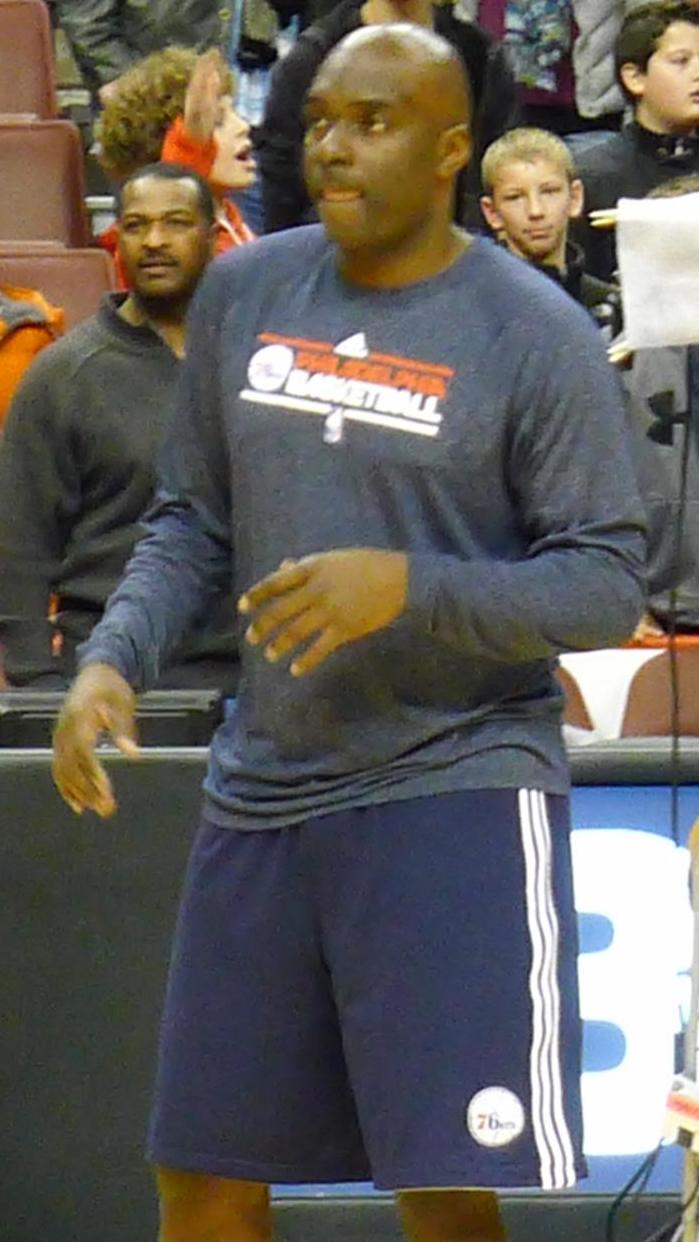 Aaron McKie assistant coach of the Philadelphia 76ers